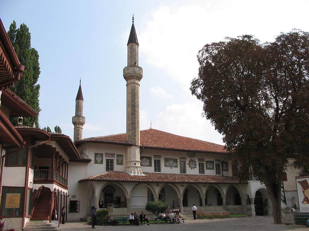 The Bakhchisaray Palace in Bakhchisaray, Ukraine. Great Palace (Khans’) Mosque, 17th-19th centuries.